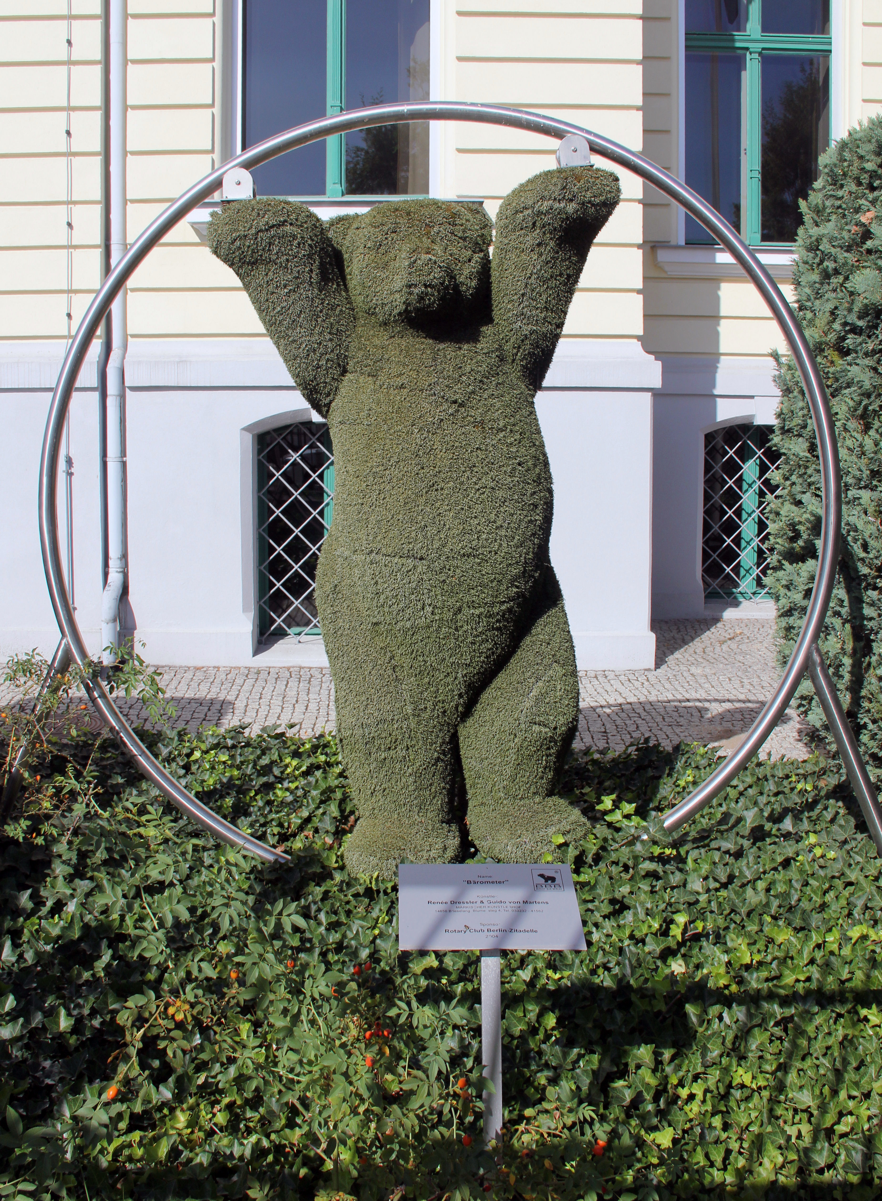 "Bärometer", Hildebrandstraße 5, Berlin-Tiergarten, Germany